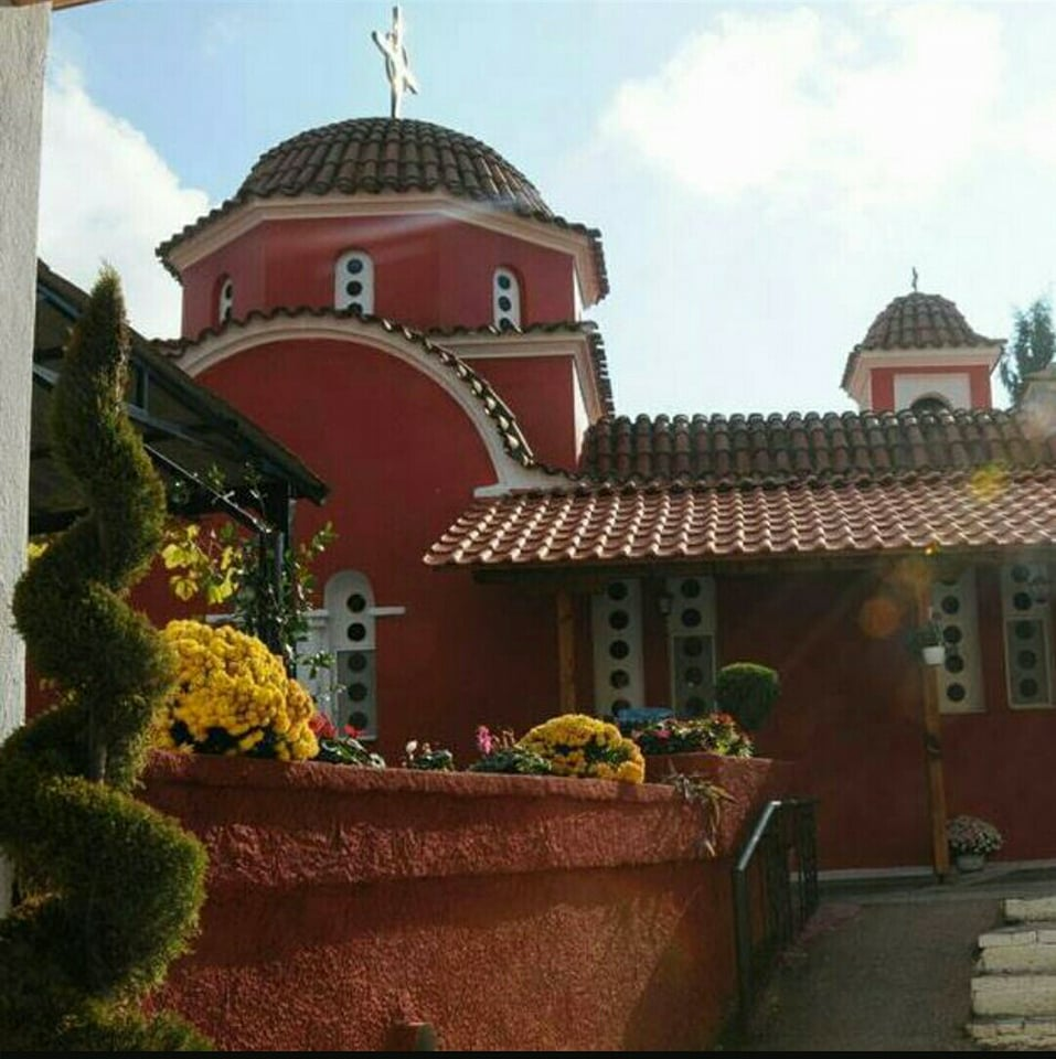 η μονη αγιας κυριακης